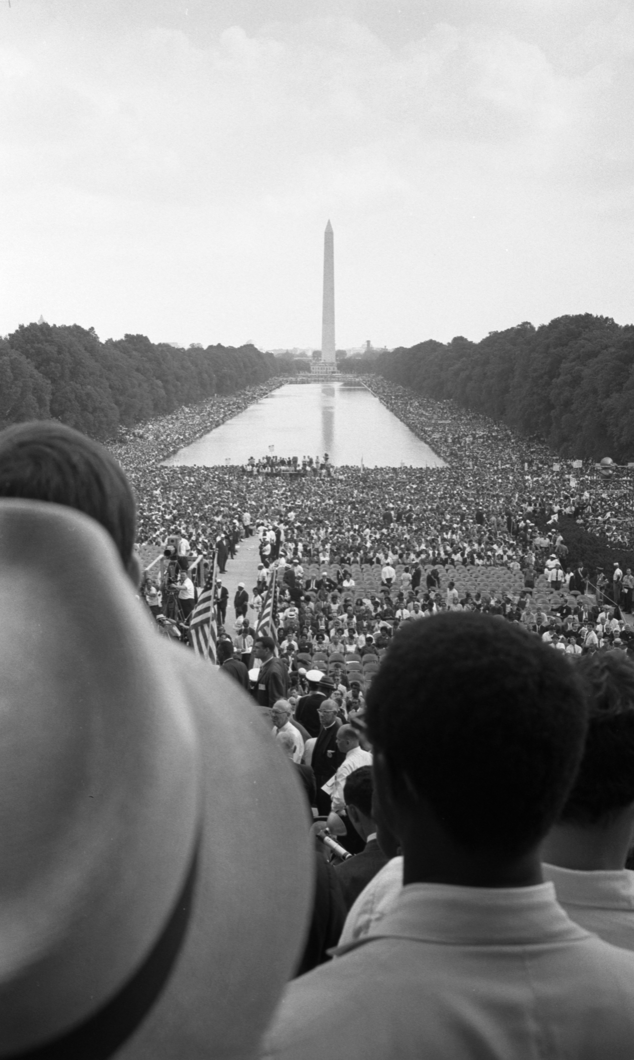 Crowds surrounding the Reflecting Pool, during the 1963 March on Washington. Photograph shows a crowd of African Americans and whites surrounding the Reflecting Pool and continuing to the Washington Monument.